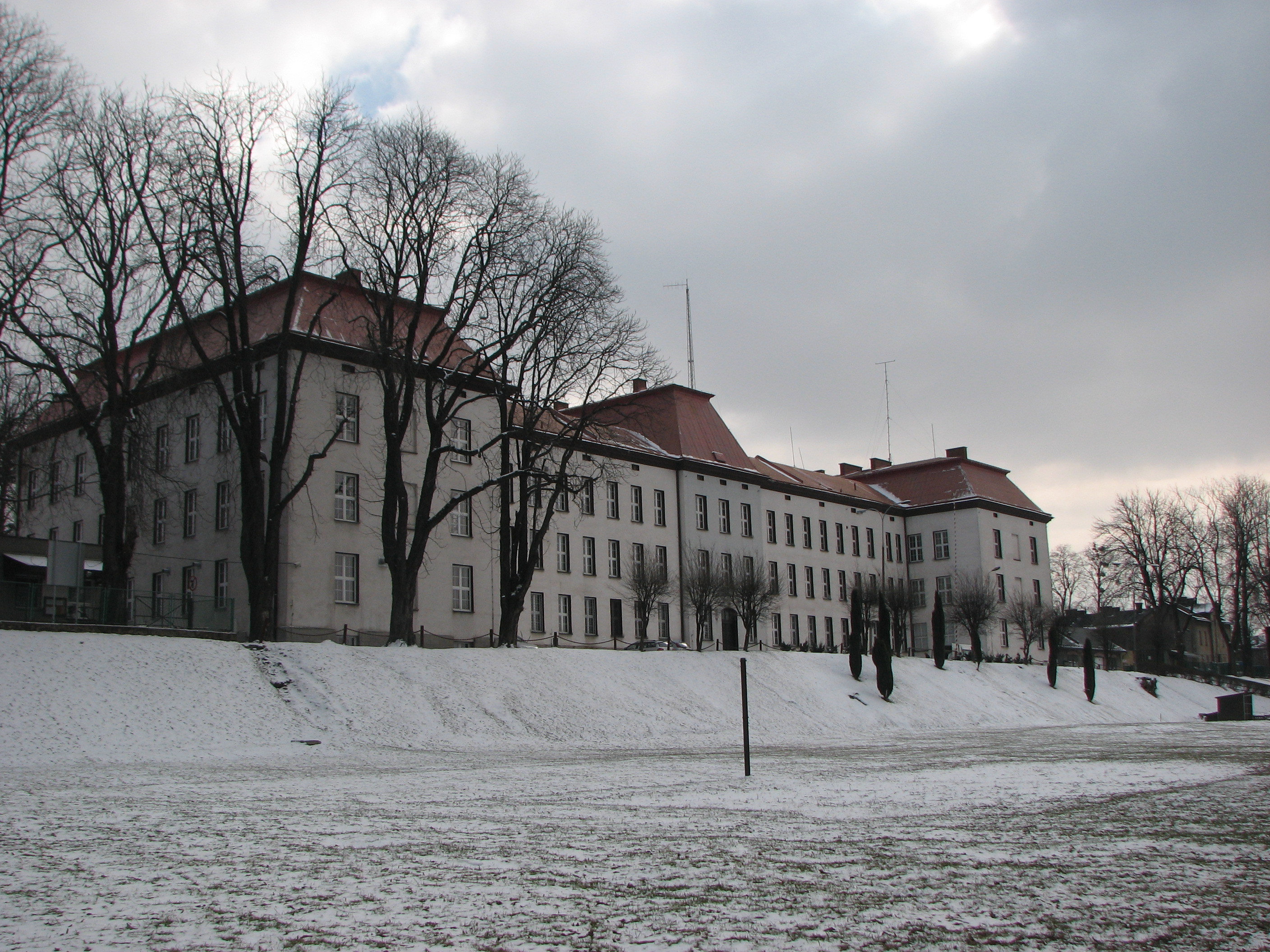 Former barracks in Cieszyn, Blogocka Street